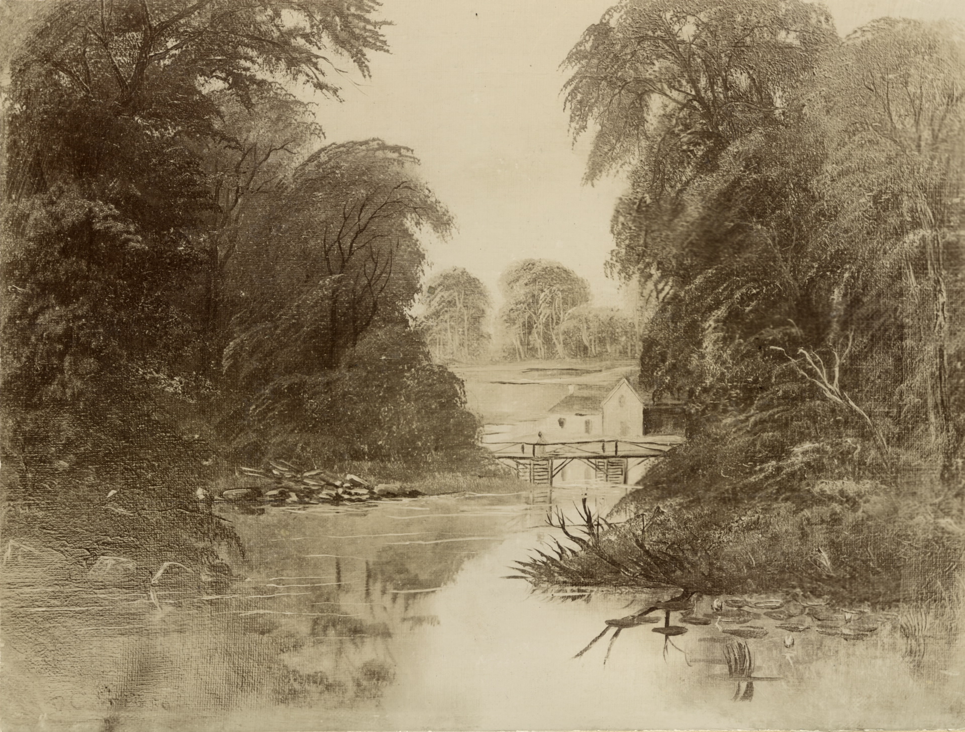 Toronto Public Library's Dawes Road branch turns 47 today! Because it's just north of Taylor-Massey Creek, we dug up this picture of the Taylor Bros.' paper mill from the 1860s, just about a hundred years before our branch was built. Courtesy: TPL's Digital Archive Creator: D.C. Grose Date: 186- Identifier: B 3-27c Format: Picture Rights: Public domain Courtesy: Toronto Public Library. More information: (view details and larger image)